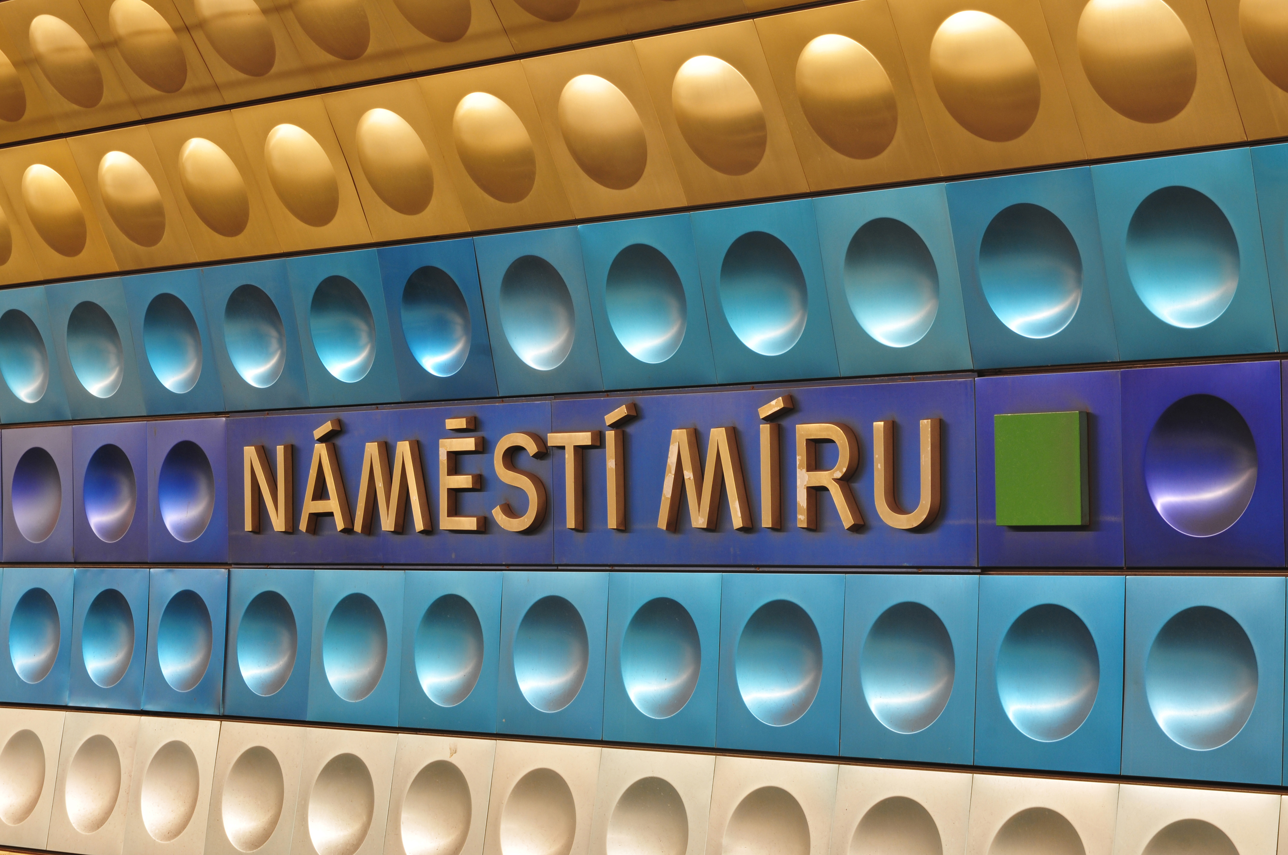 Metro Praha, station Náměstí Míru, Aluminium wall